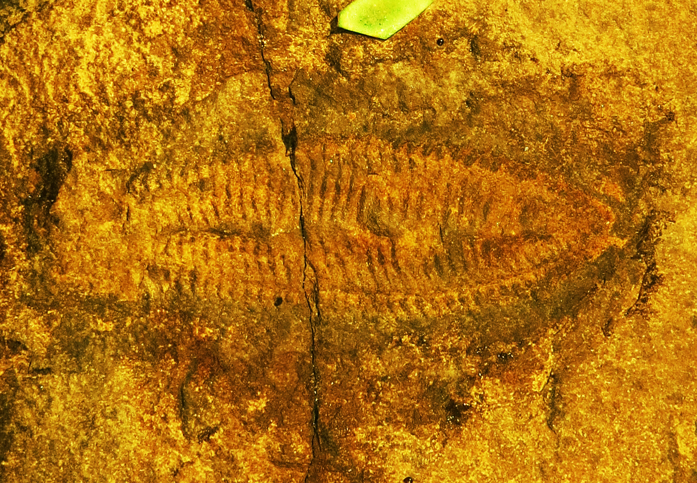 Protonympha transversa from the Middle Devonian (Givetian) Moscow Formation near Summit, New York